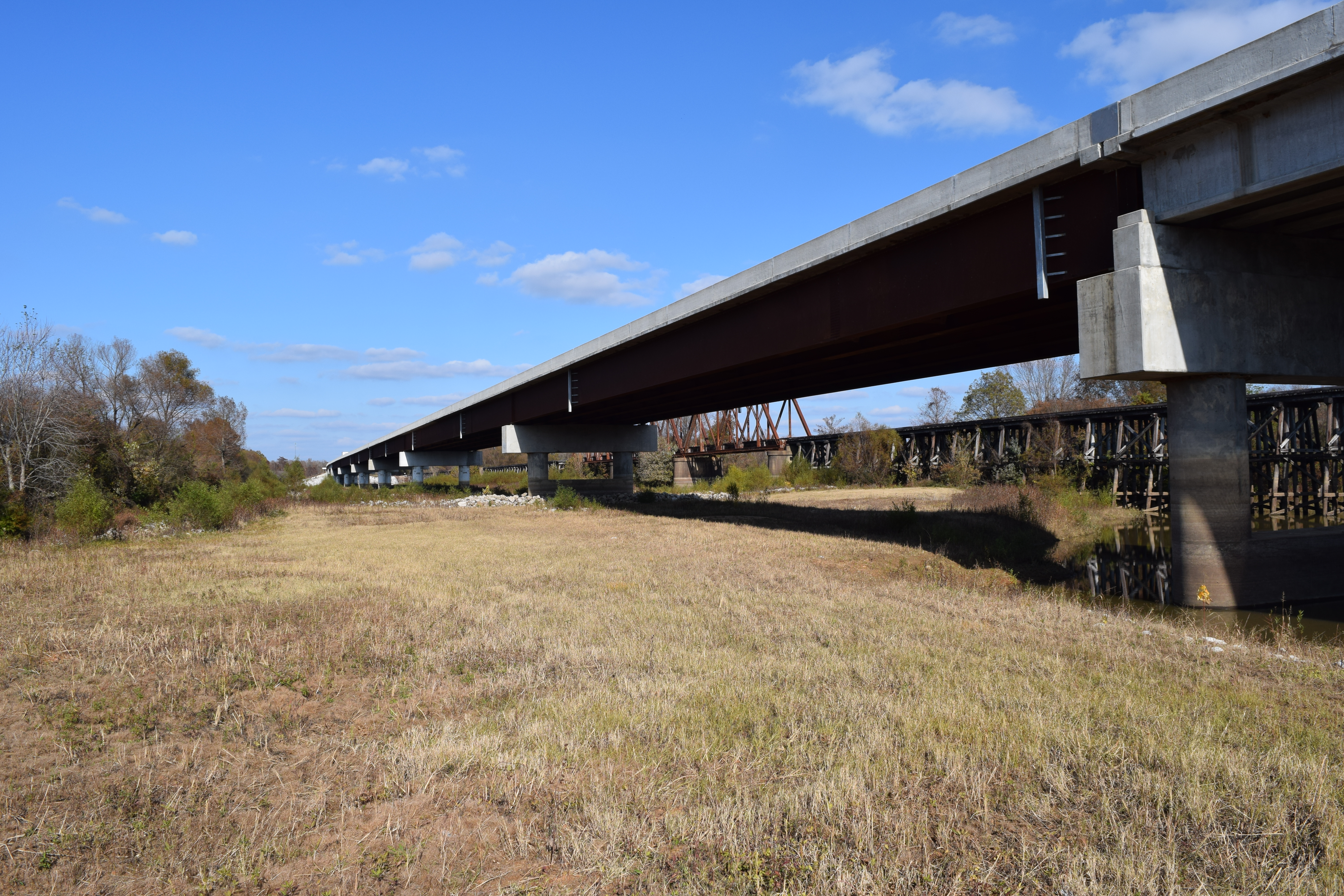 The Mississippi Highway 7 bridge completed in 2015 and Mississippi Central Railroad bridge across the Little Tallahatchie River north of Abbeville in Lafayette County, Mississippi